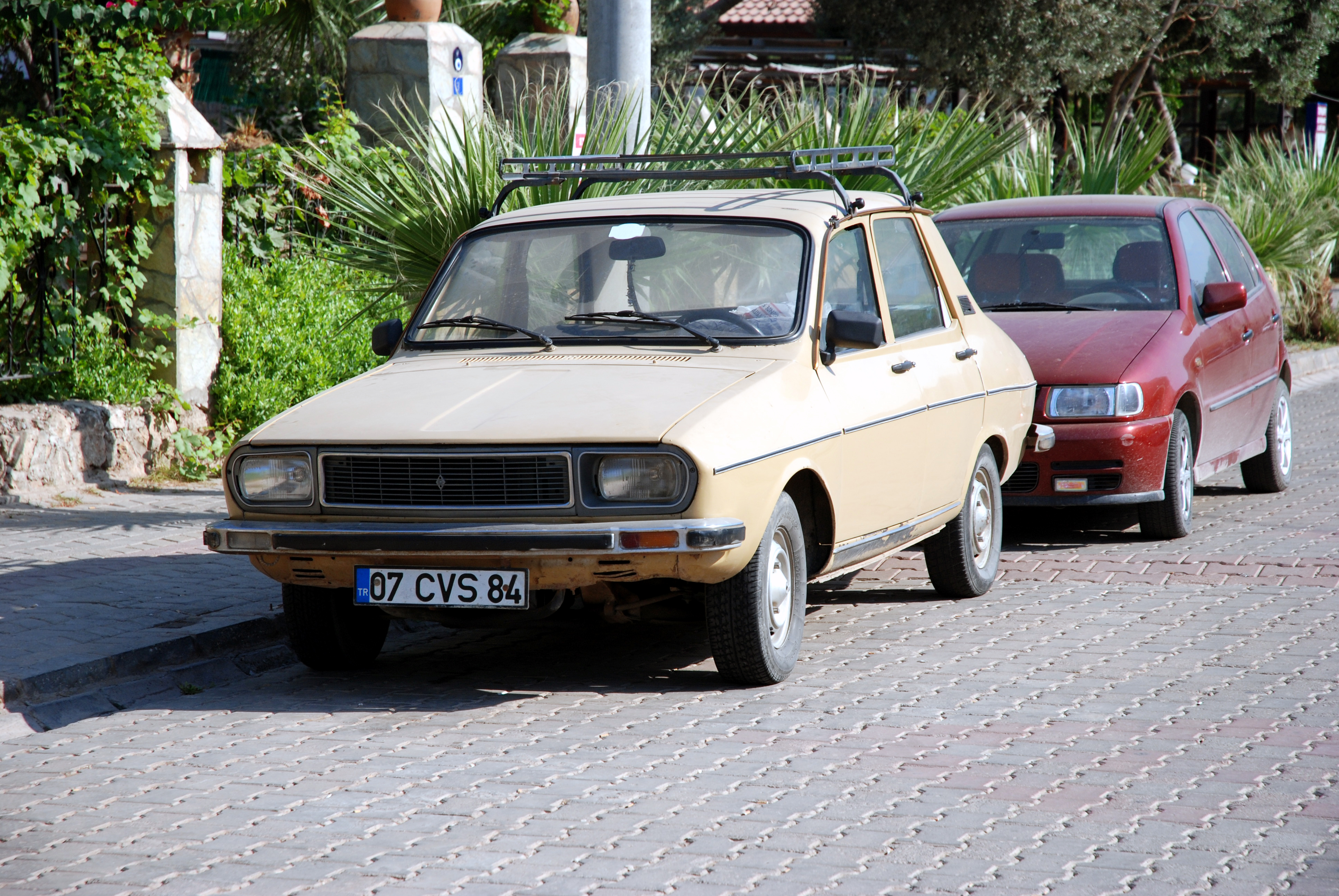 the old 70s car still widely used in Turkey...there were hundreds of them